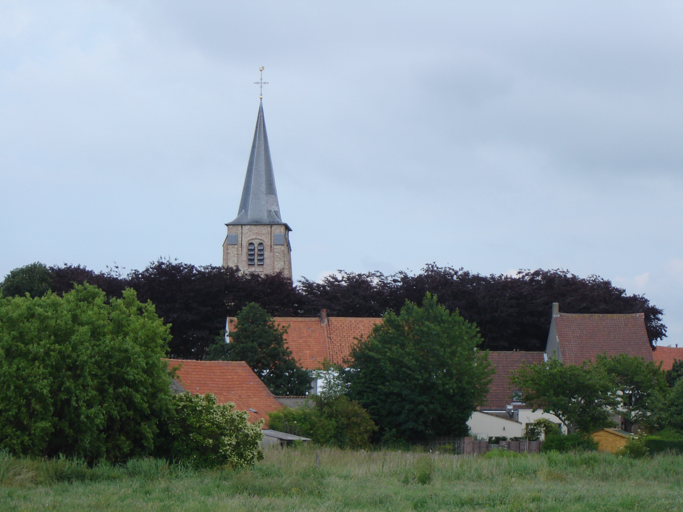 View on village of Ramskapelle and church of Saint Vincent. Ramskapelle, Knokke-Heist, West-Flanders, Belgium.